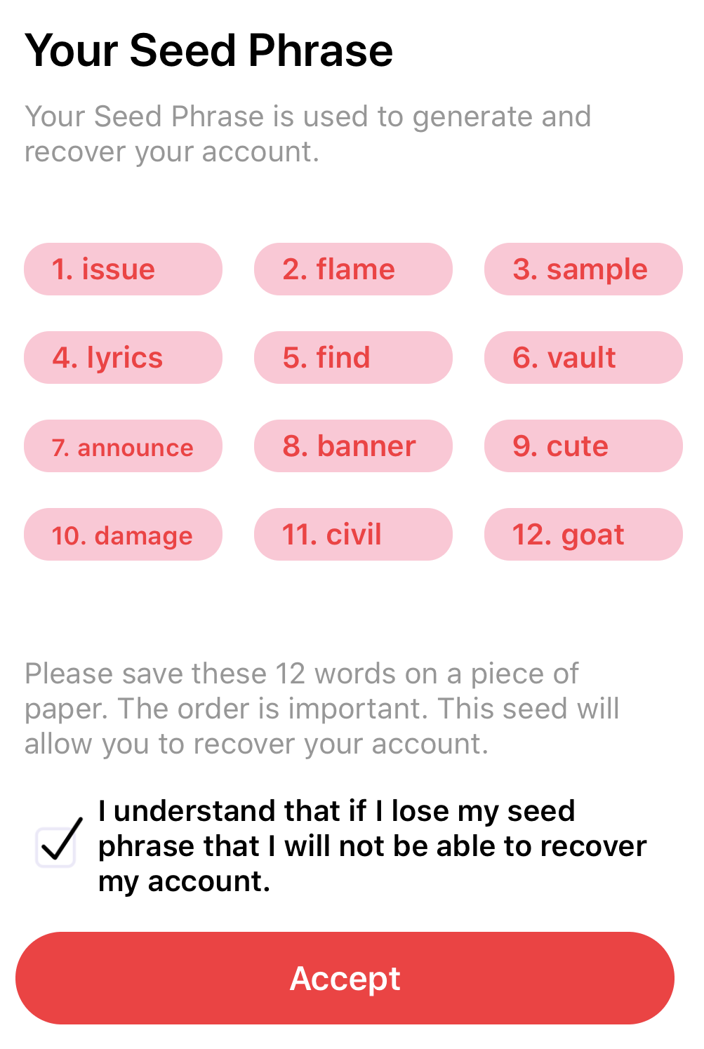 Creating an (determenistic) crypto wallet seed phrase. Directly after installing the Atala PRISM app on a mobile phone a seed phrase is created as you can also see in this video at time 11:11. For security reasons it is advised not to store it electronically, but to write it down (on e.g. a piece of paper).